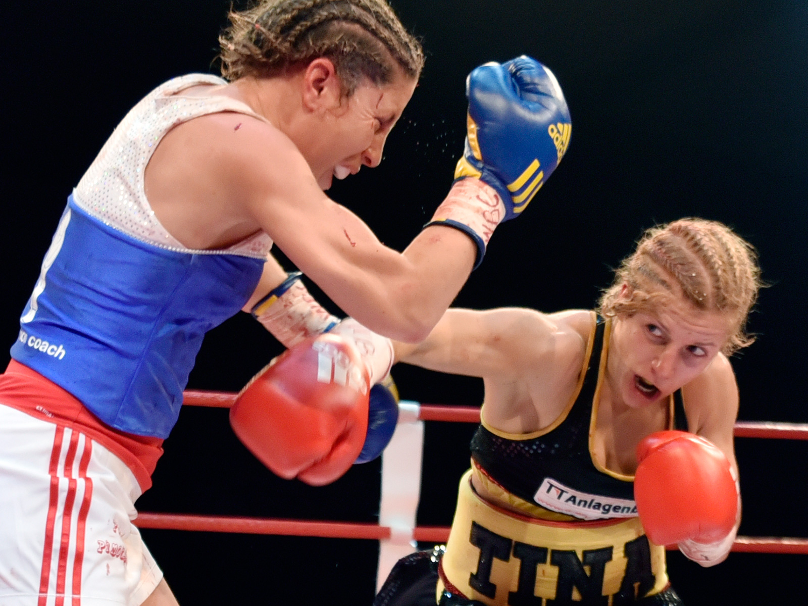 Boxer Tina Rupprecht in her fight against Anne Sophie da Costa on 2nd of December 2017 at Stockschützenhalle, Kühbach, Germany.